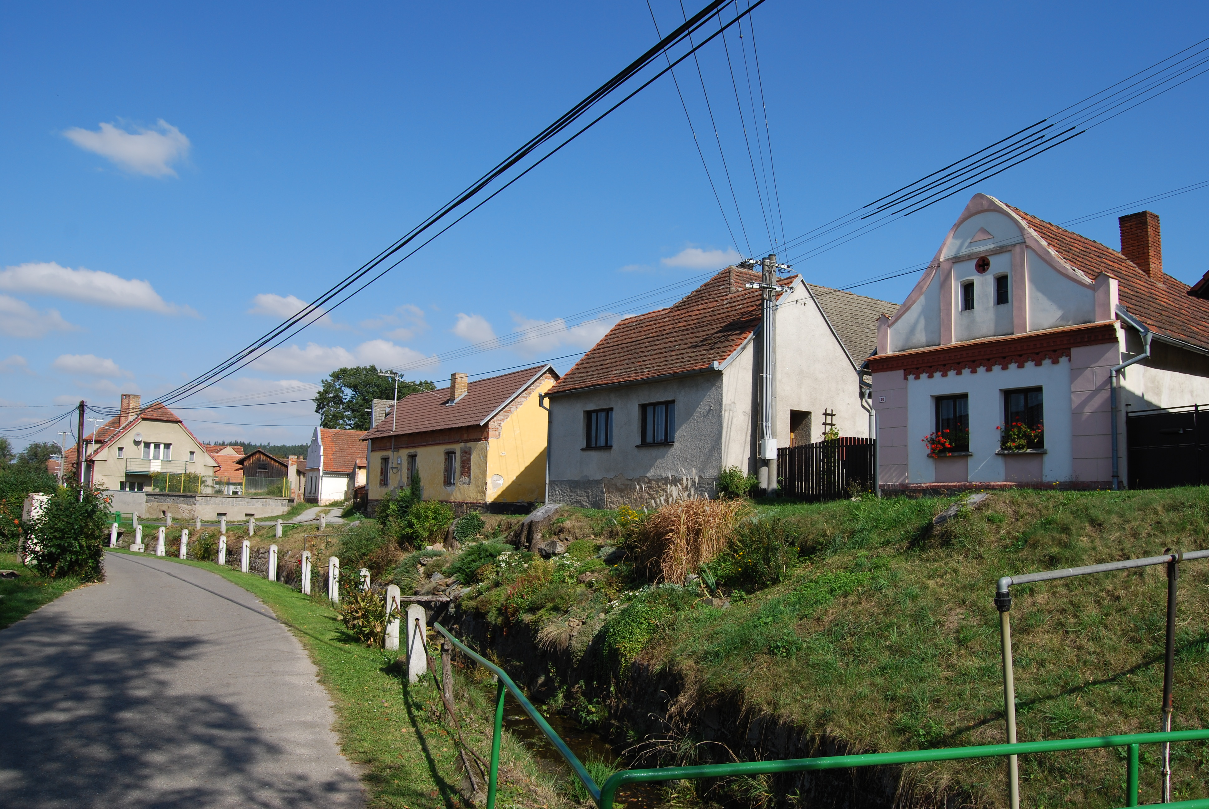 Škvořetice village in Písek District, Czech Republic.